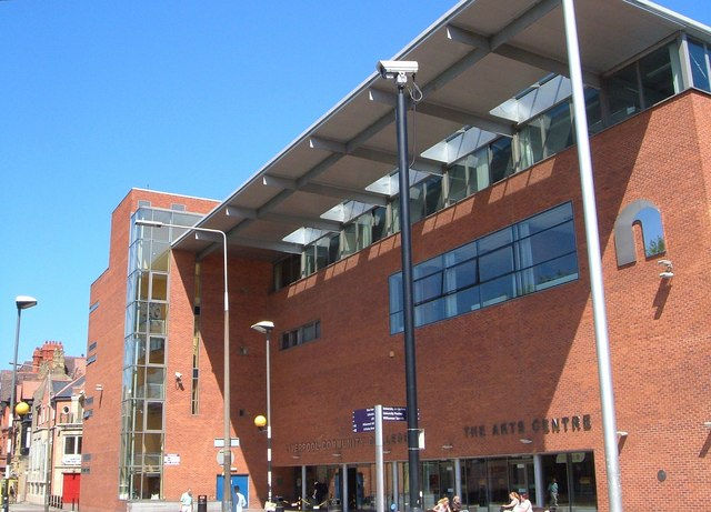 Liverpool Community College Arts Centre This building opened in 1999 on the corner of Myrtle Street (left) and Mulberry Street.